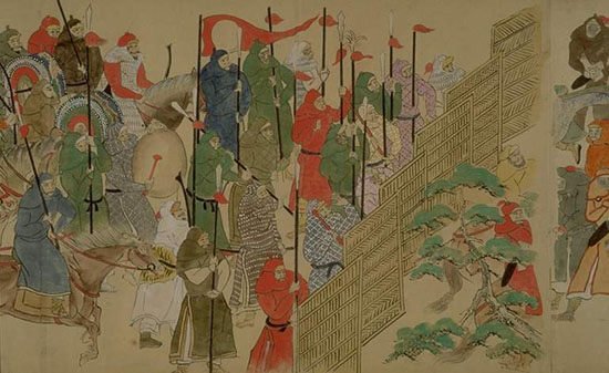 Mongol troops from «Scrolls of the Mongol Invasions»